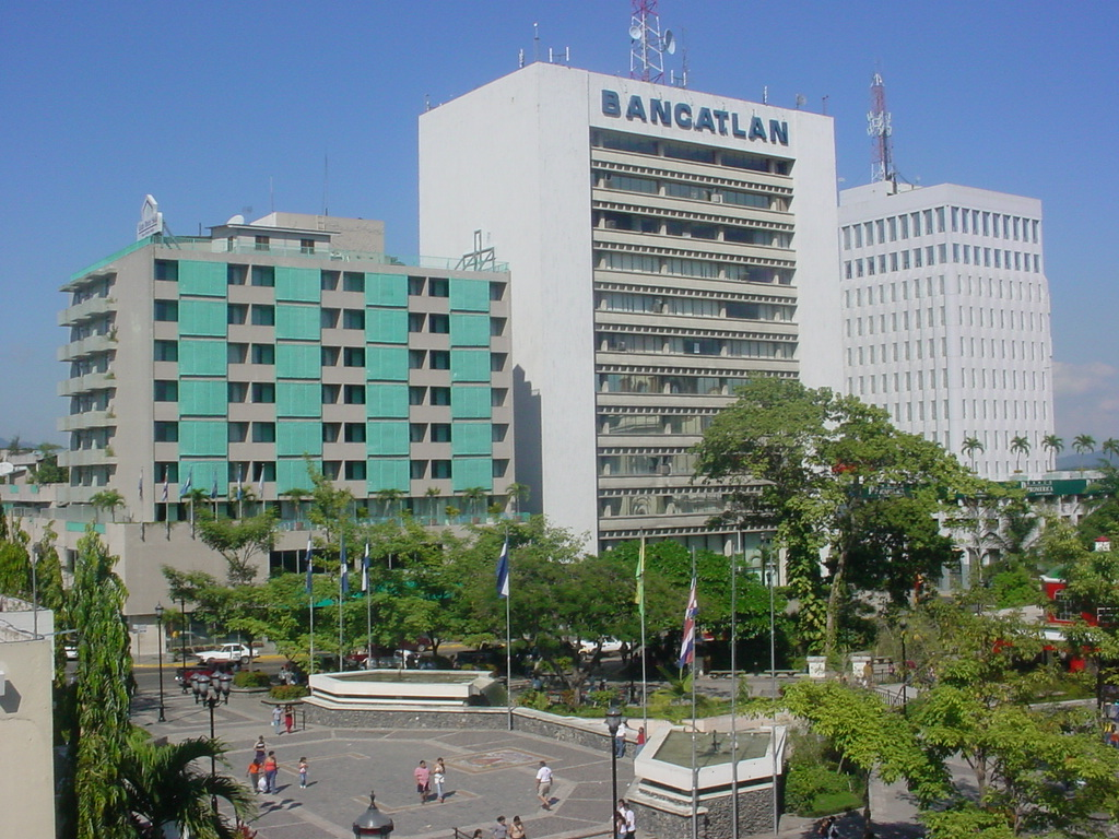 Down Town San Pedro Sula